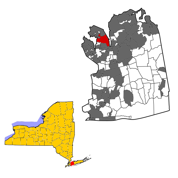 Port Washington within Nassau County with surrounding villages and hamlets